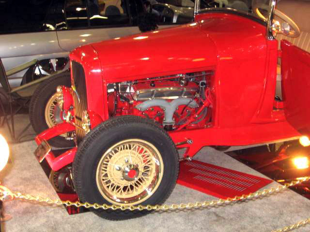 1928 Ford Model A roadster, Kelsey-Hayes wire wheels, shot at local car show